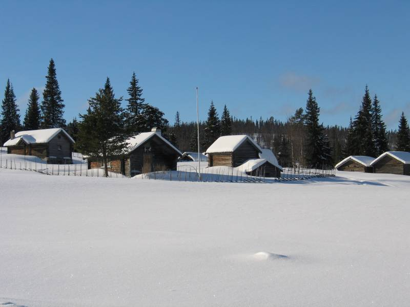 the mountain pasture Galåbodarna in Jämtland, Sweden